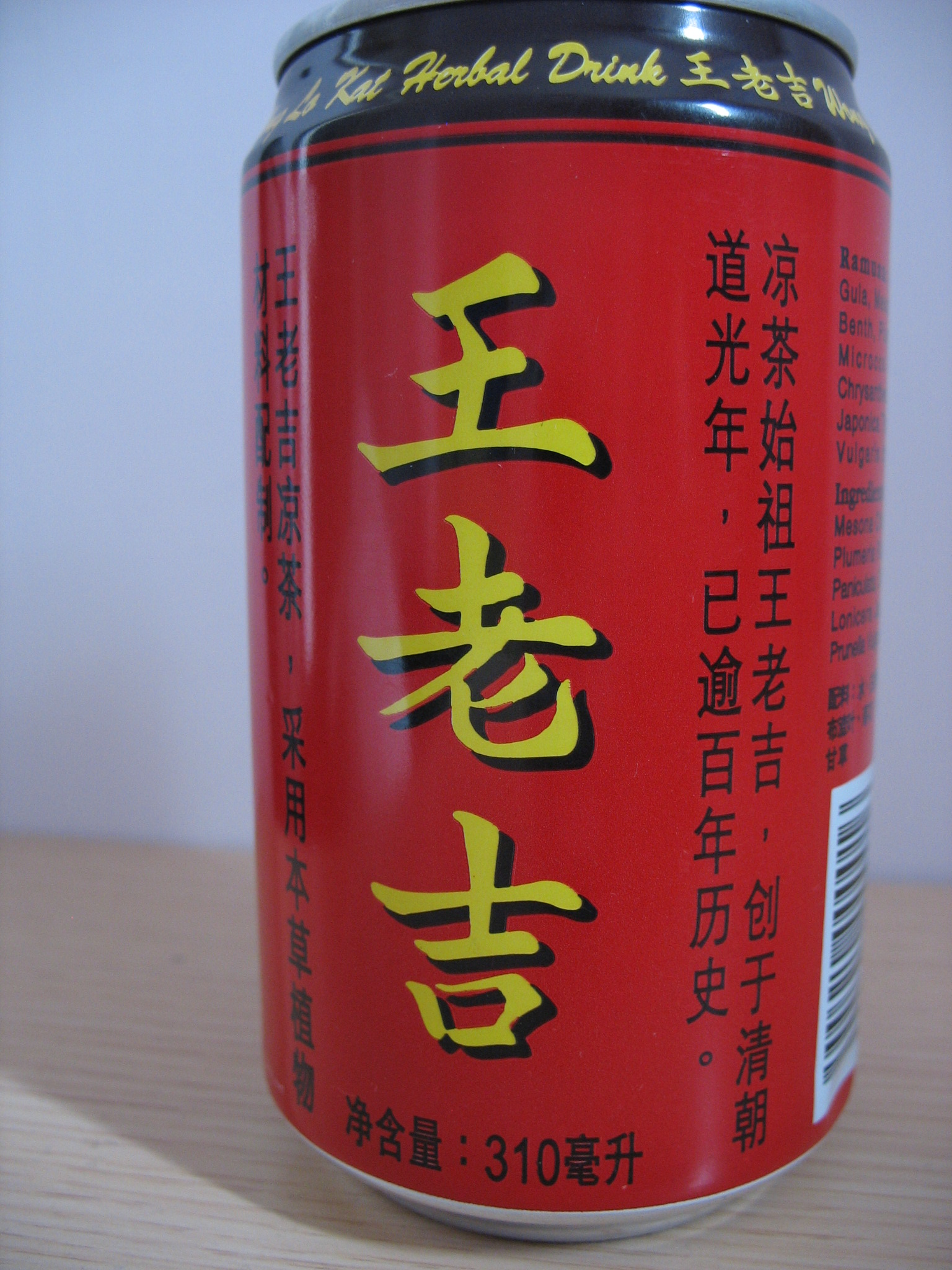 Wong Lo Kat Herbal Drink Malaysia